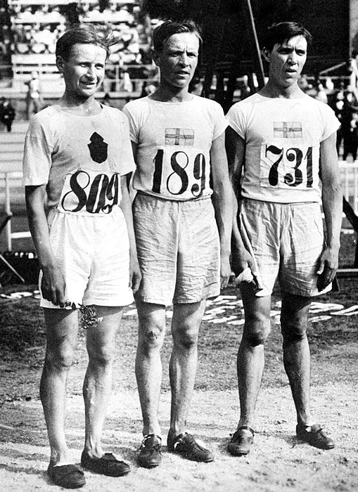 Olympic Games, Stockholm, Sweden, Cross Country, L-R: Finland's Hannes Kolehmainen (gold medal winner) with Sweden's Hjalmar Andersson (silver) and John Eke (bronze) after the race